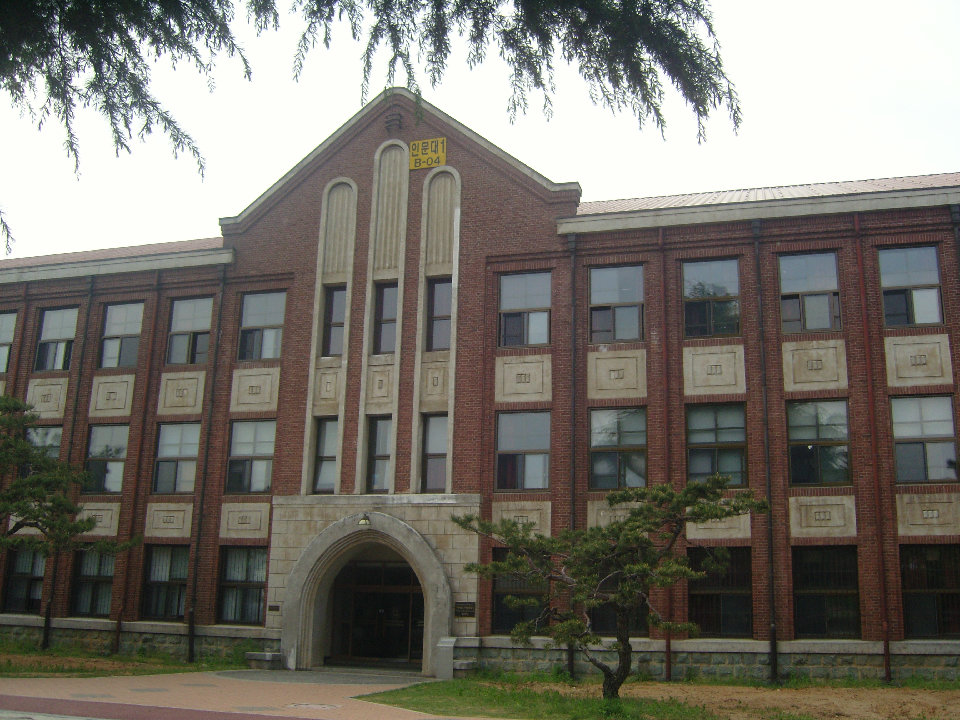 College of Humanities Building I in Chonnam National University